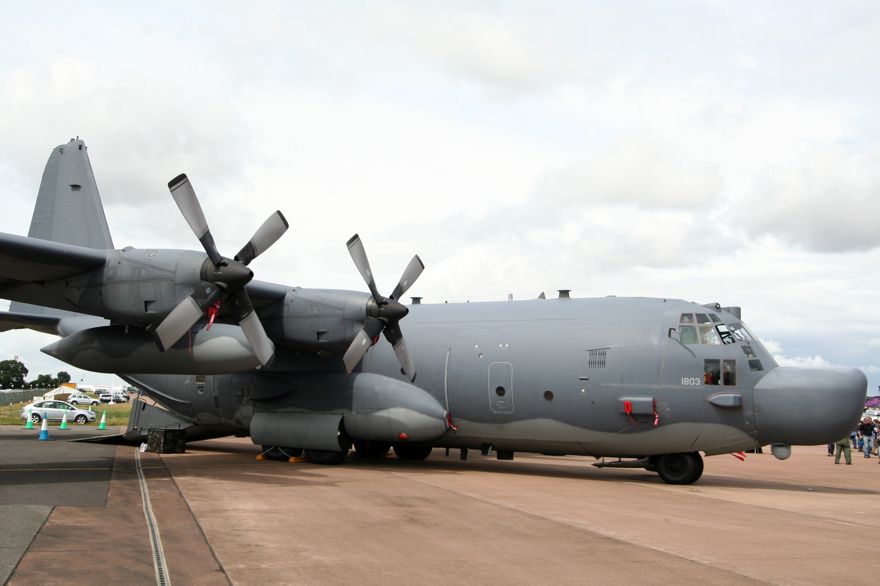 Lockheed Martin MC-130H US Air Force 88-1803 C/N 382-5173